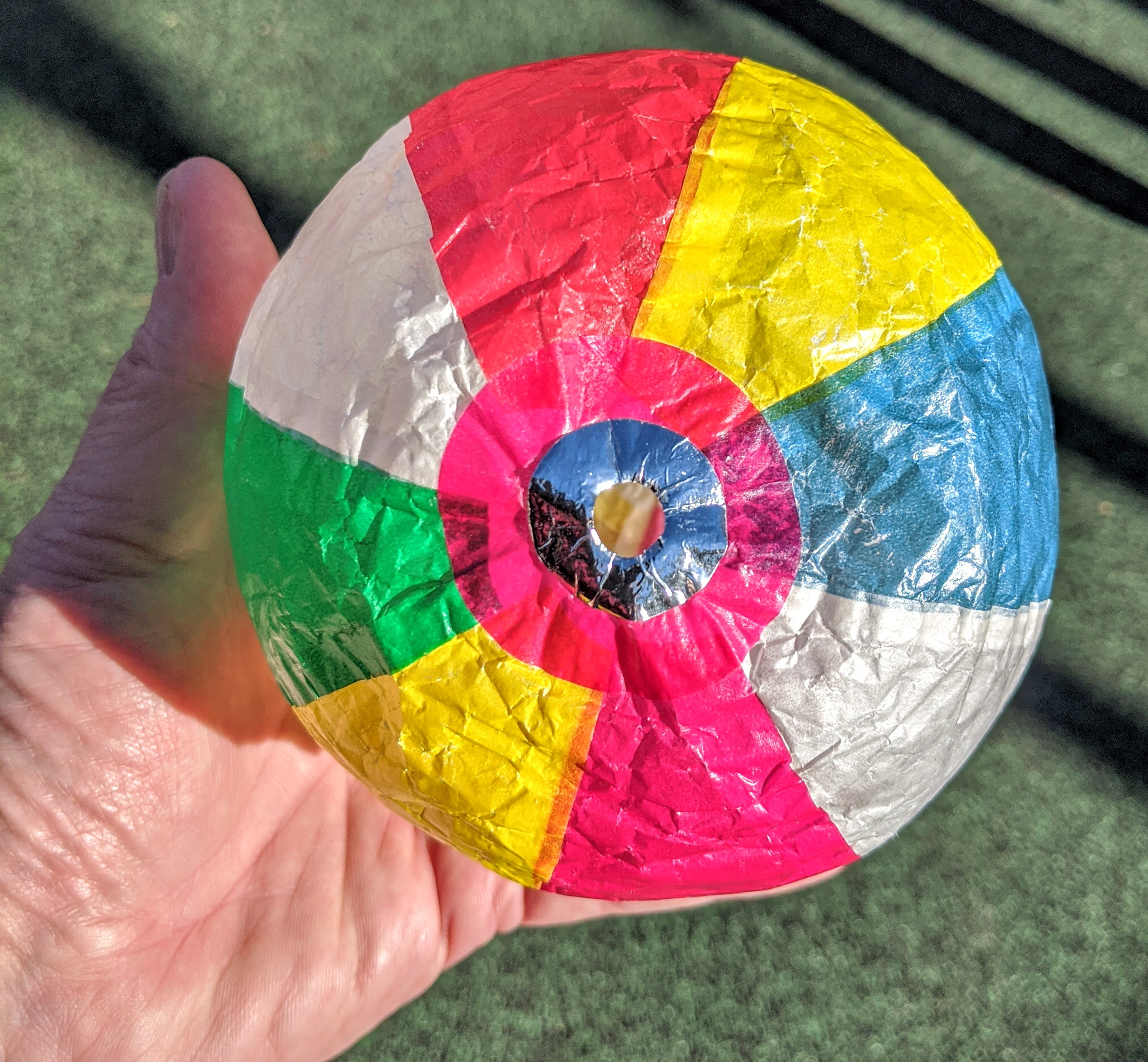 A handheld kamifusen. Photo by Jim Heaphy.